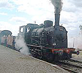 Chemin de fer de la Vallée de la Canner 030 T1, and 0-6-0T locomotive, built by Krupp (No. 741 of 1931). Photographed at the Vigy en Moselle railway station, F-57640.